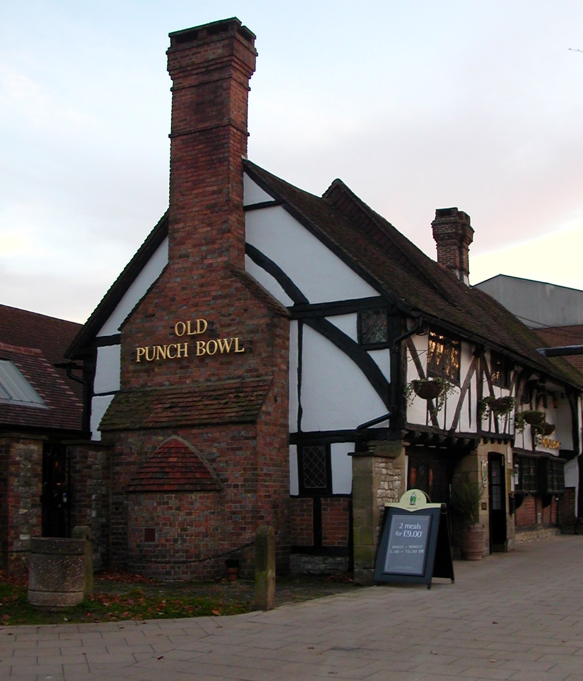 North end of The Punch Bowl, 101 High Street, Crawley, West Sussex, England, showing the early-20th century chimney stack. The building is listed at Grade II* by English Heritage (ref #363350)